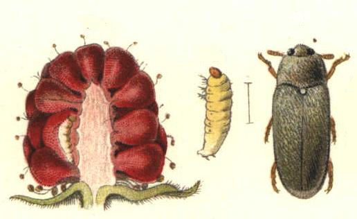 drawing of the beetle (Byturus tomentosus) living on raspberry